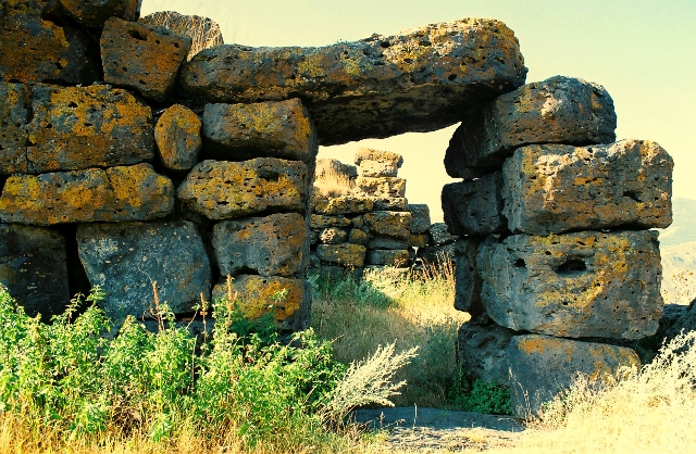 Saro megalith, Georgia.